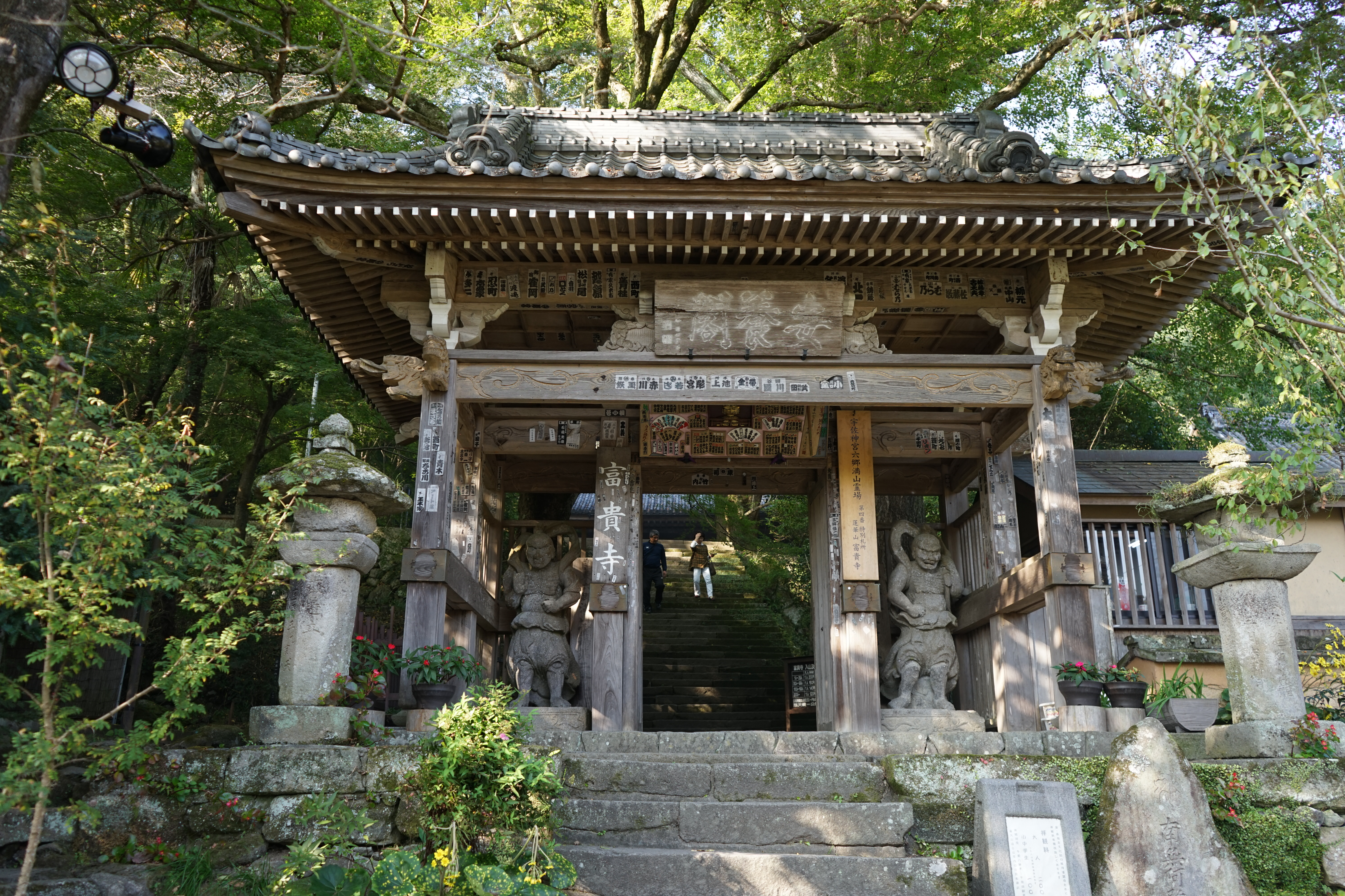 Fuki-ji's niōmon, Oita, Japan.